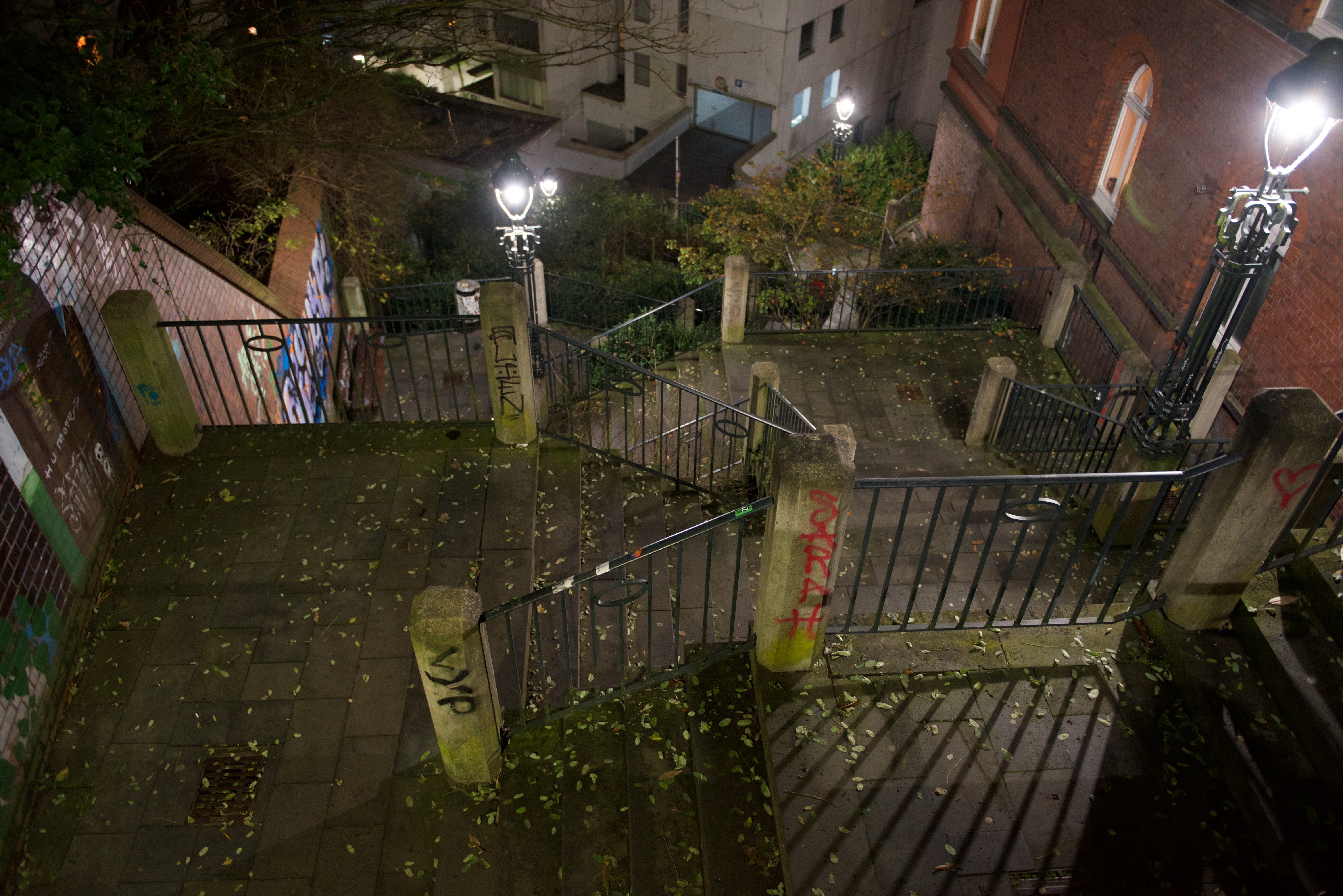 Tippen-Tappen-Toenchen von oben bei Nacht